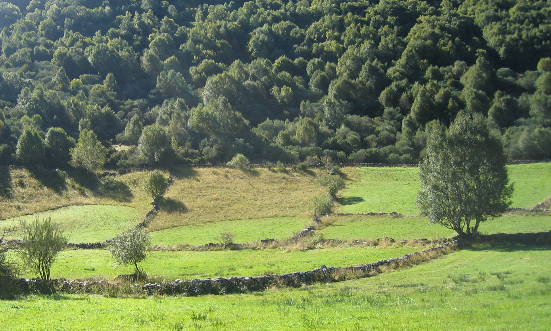 Birch forest in Montrondo